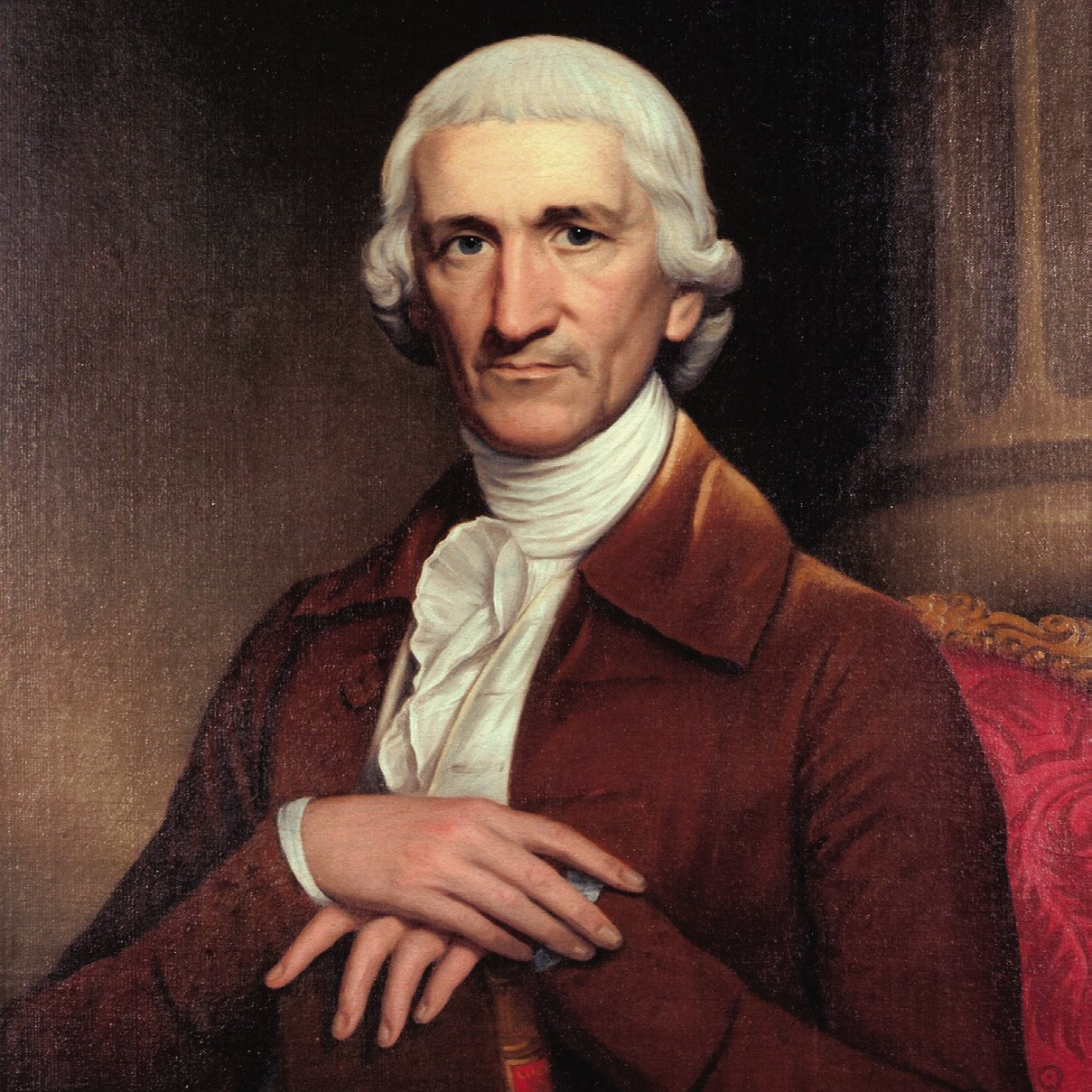 Charles Thomson (1729-1824), Secretary of the Continental Congress and one of the main designers of the Great Seal of the United States.